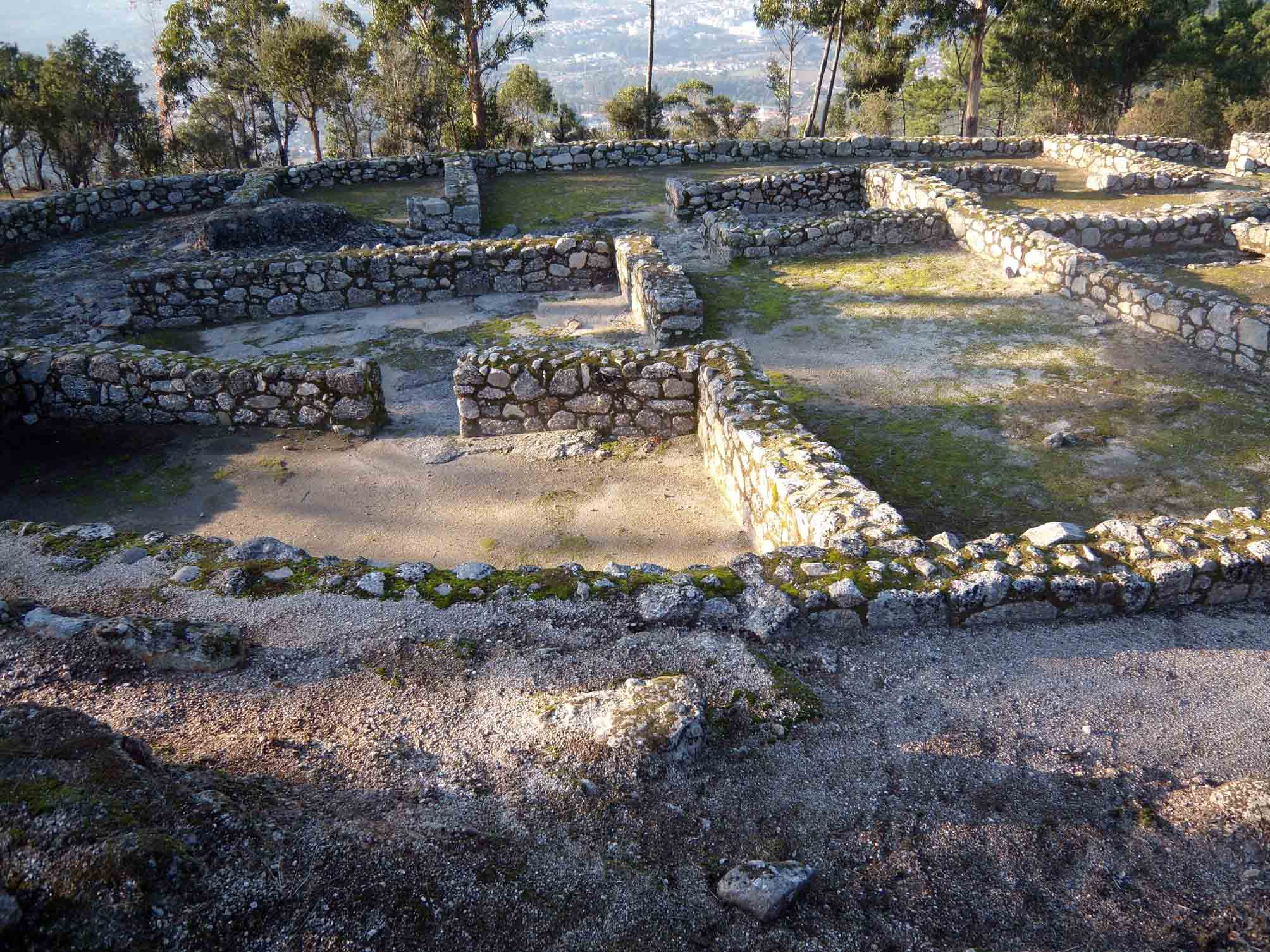 Hill Fort of Monte Padrão - Santo Tirso - Portugal